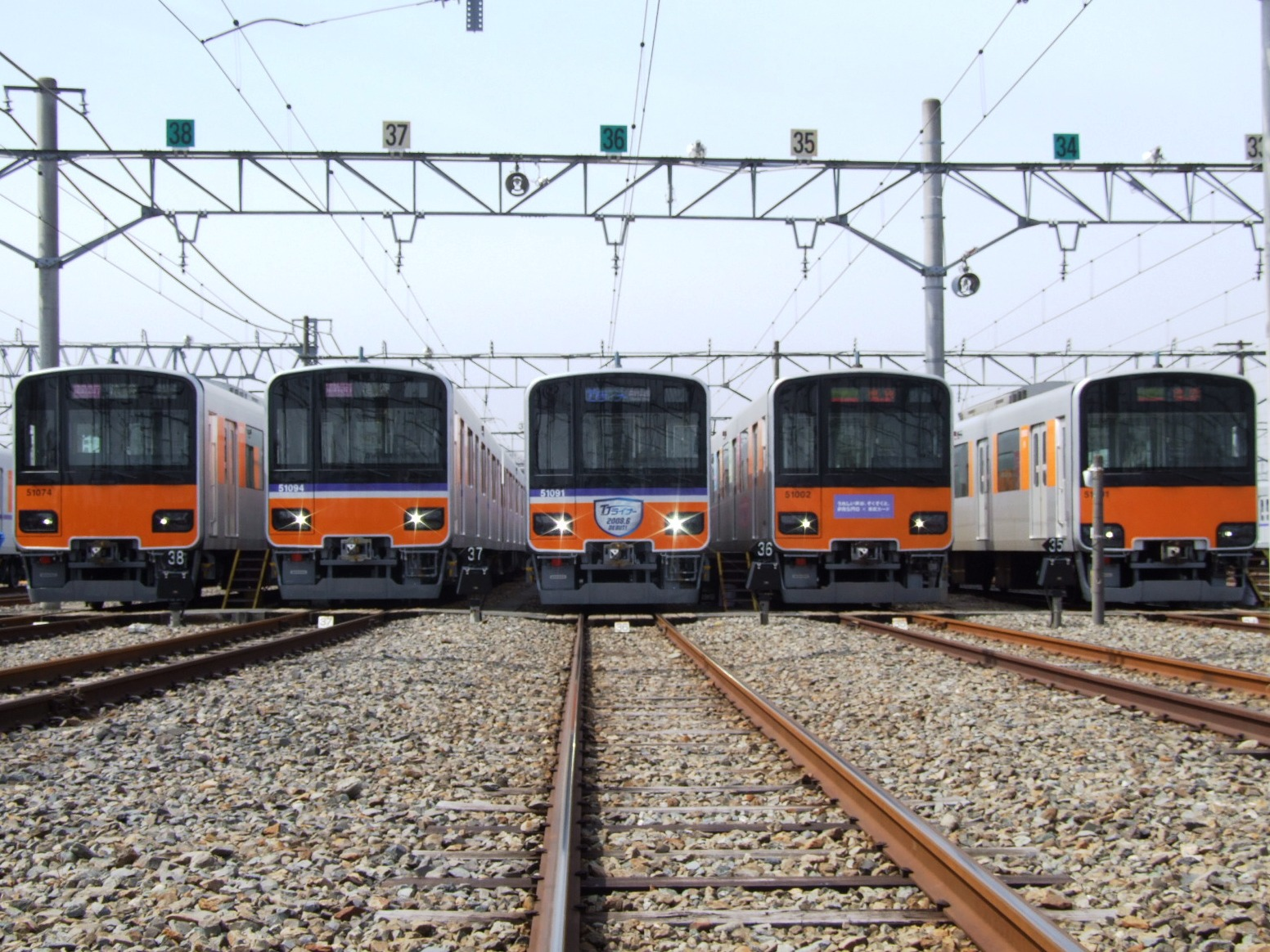 Tobu 50000 series (50070/50090/50090/50000/50000) sets at Shinrinkoen Depot open day, 23 March 2008